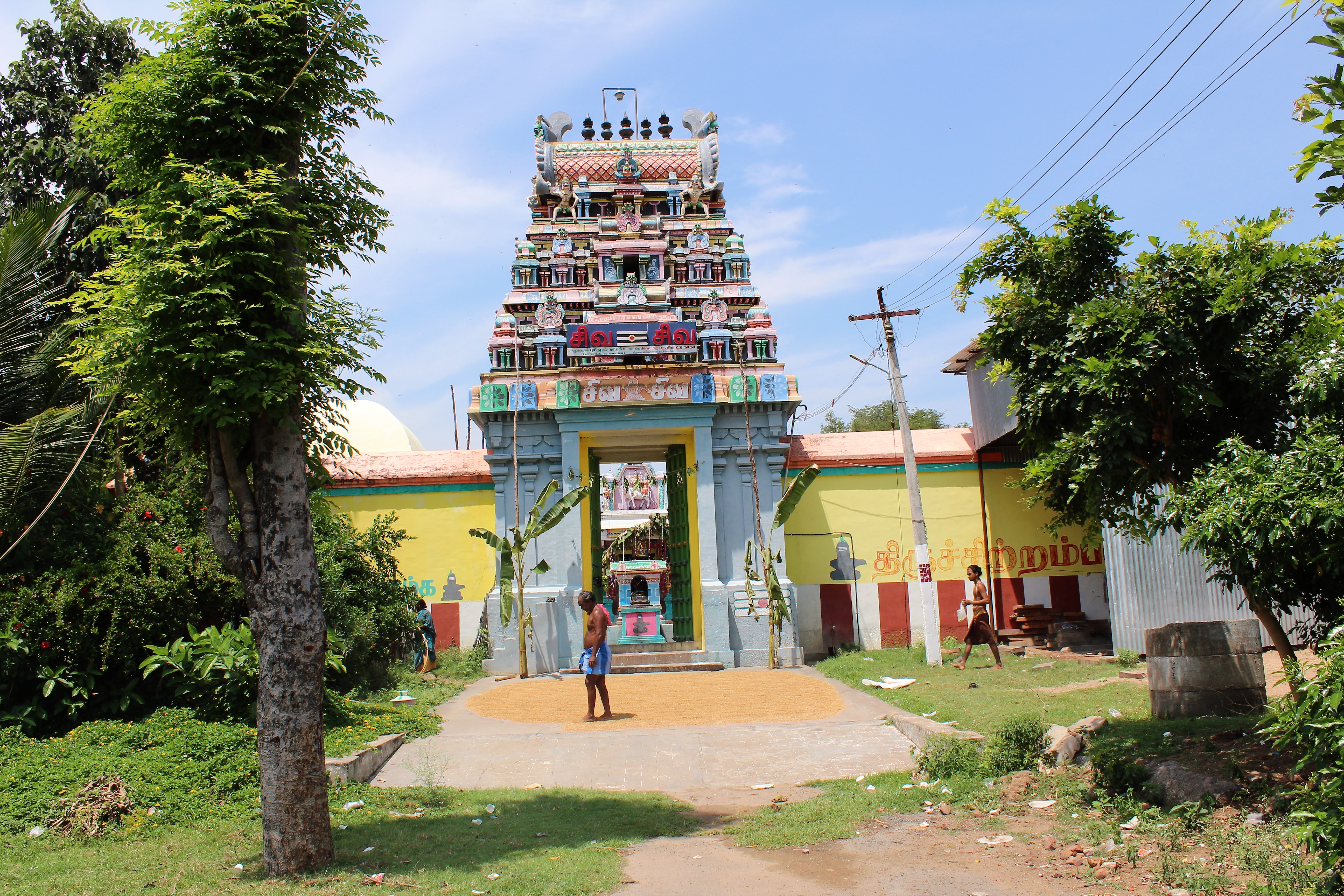 Narthana Vallabheshwarar temple